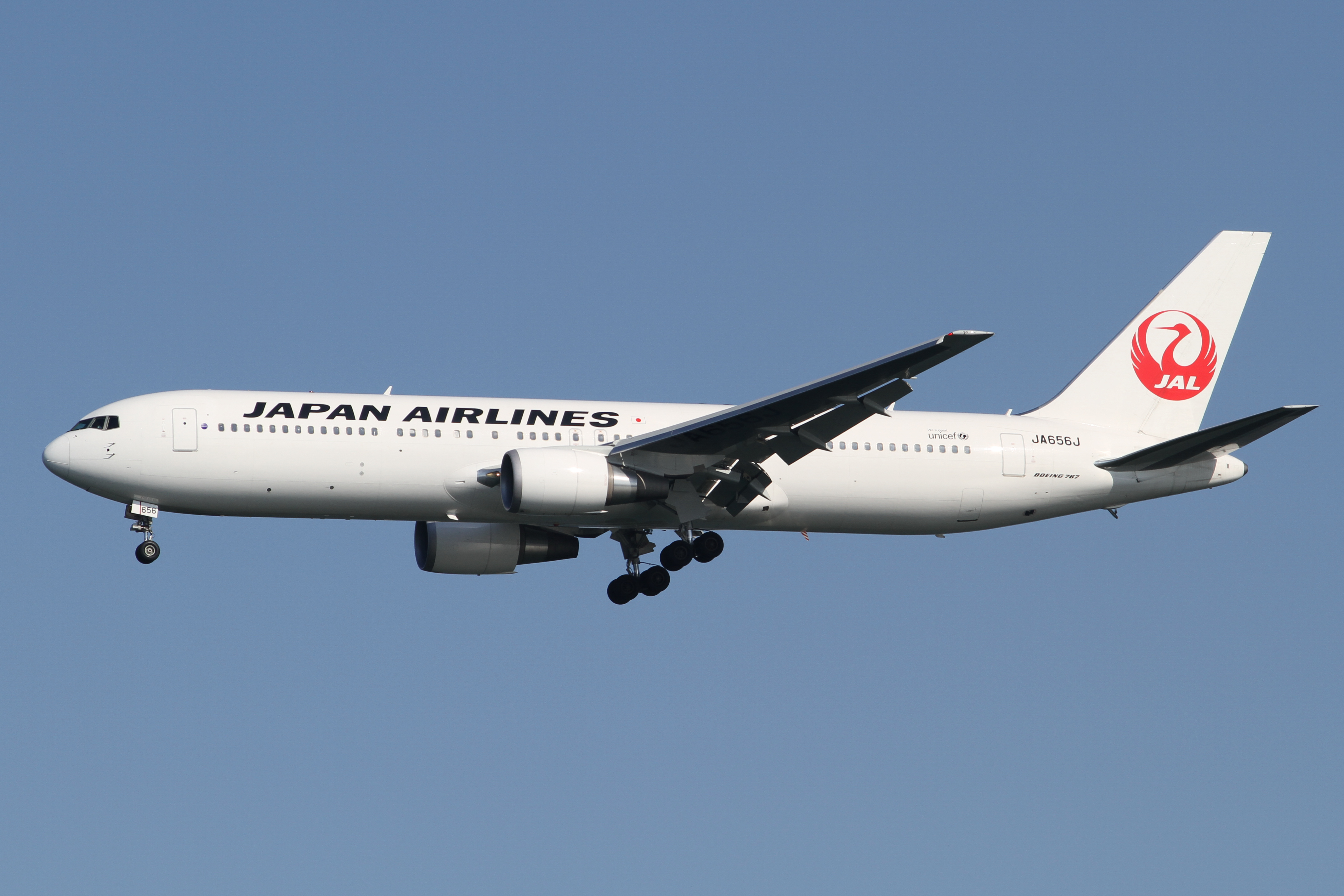 Tokyo International Airport, Boeing 767-346/ER, c/n:40368, Japan Airlines